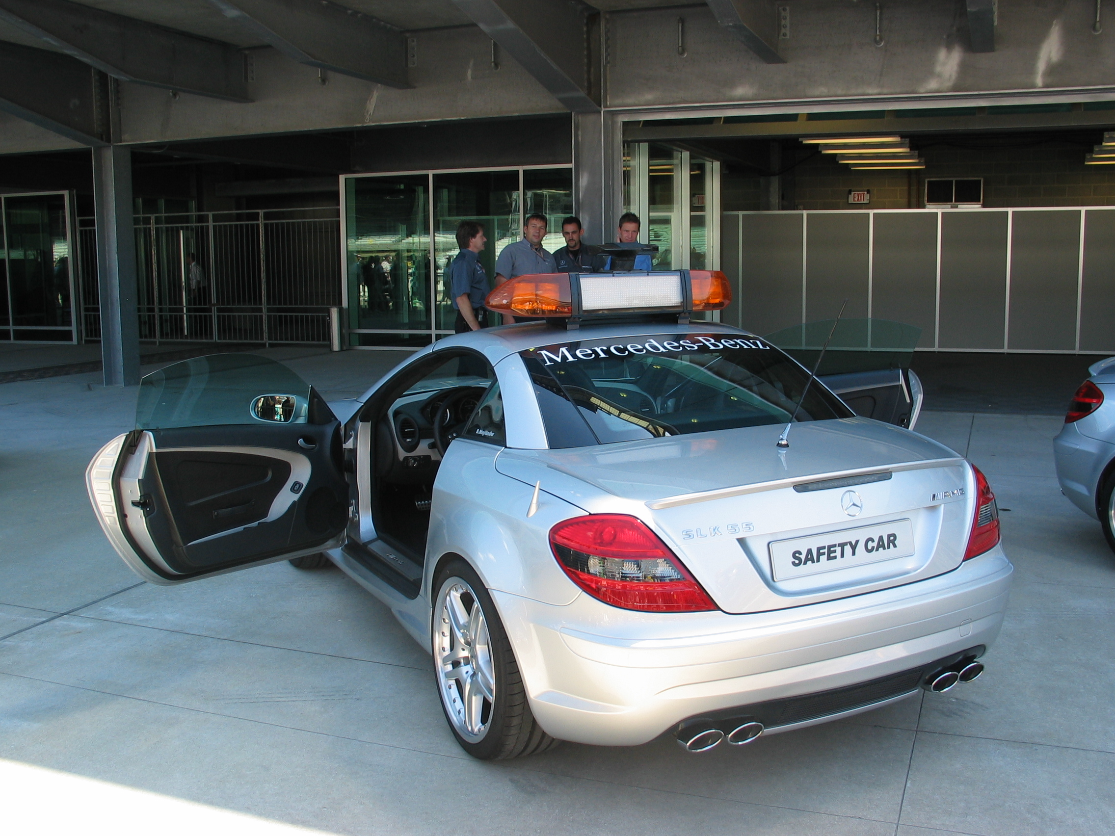 A Formula One safety car out of the garage at the 2005 United States Grand Prix.